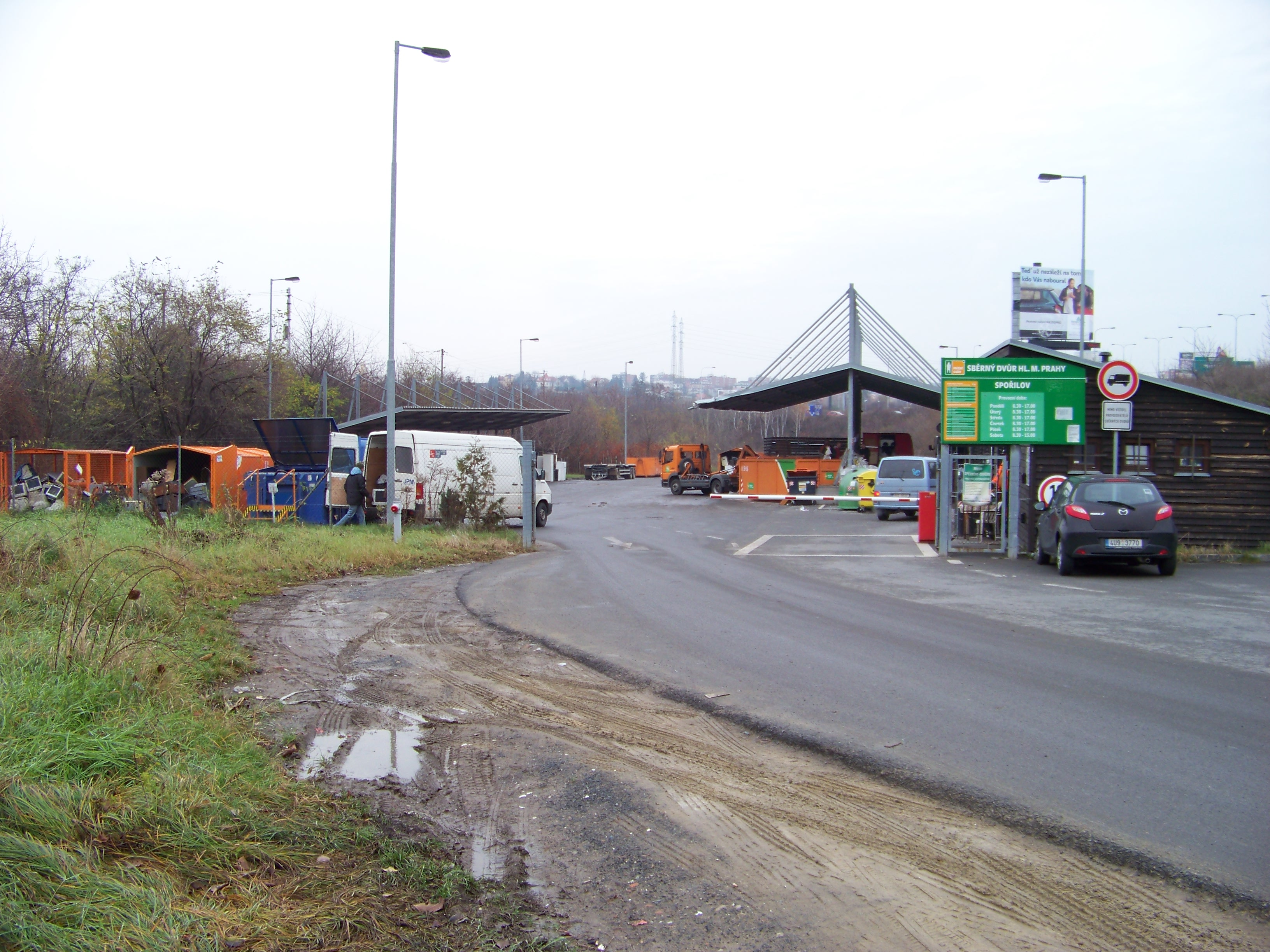 Prague-Záběhlice, the Czech Republic. Zakrytá street, a waste collection station Spořilov.